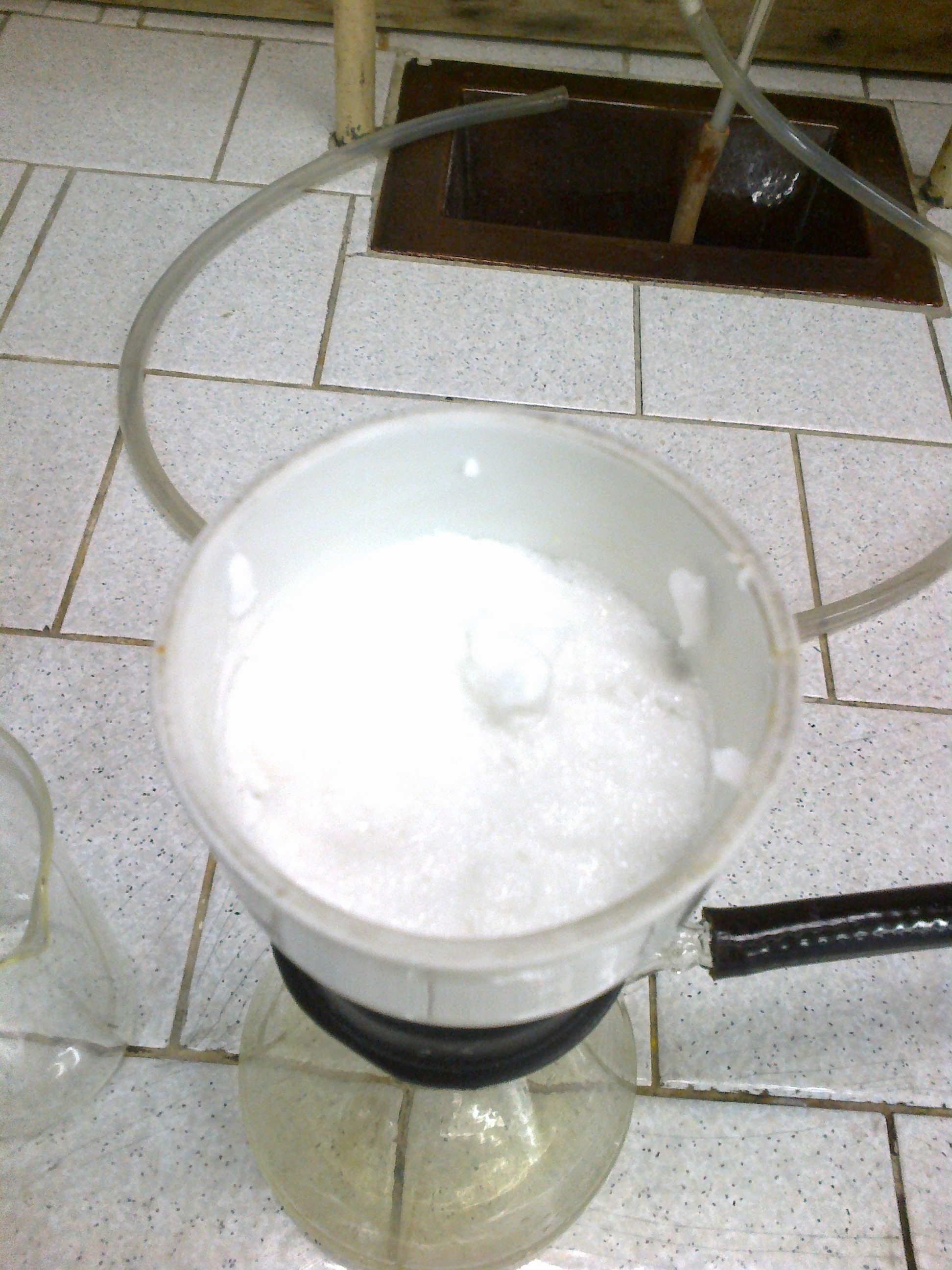 Drying acetanilide. Photo taken at Slovak University of Technology.